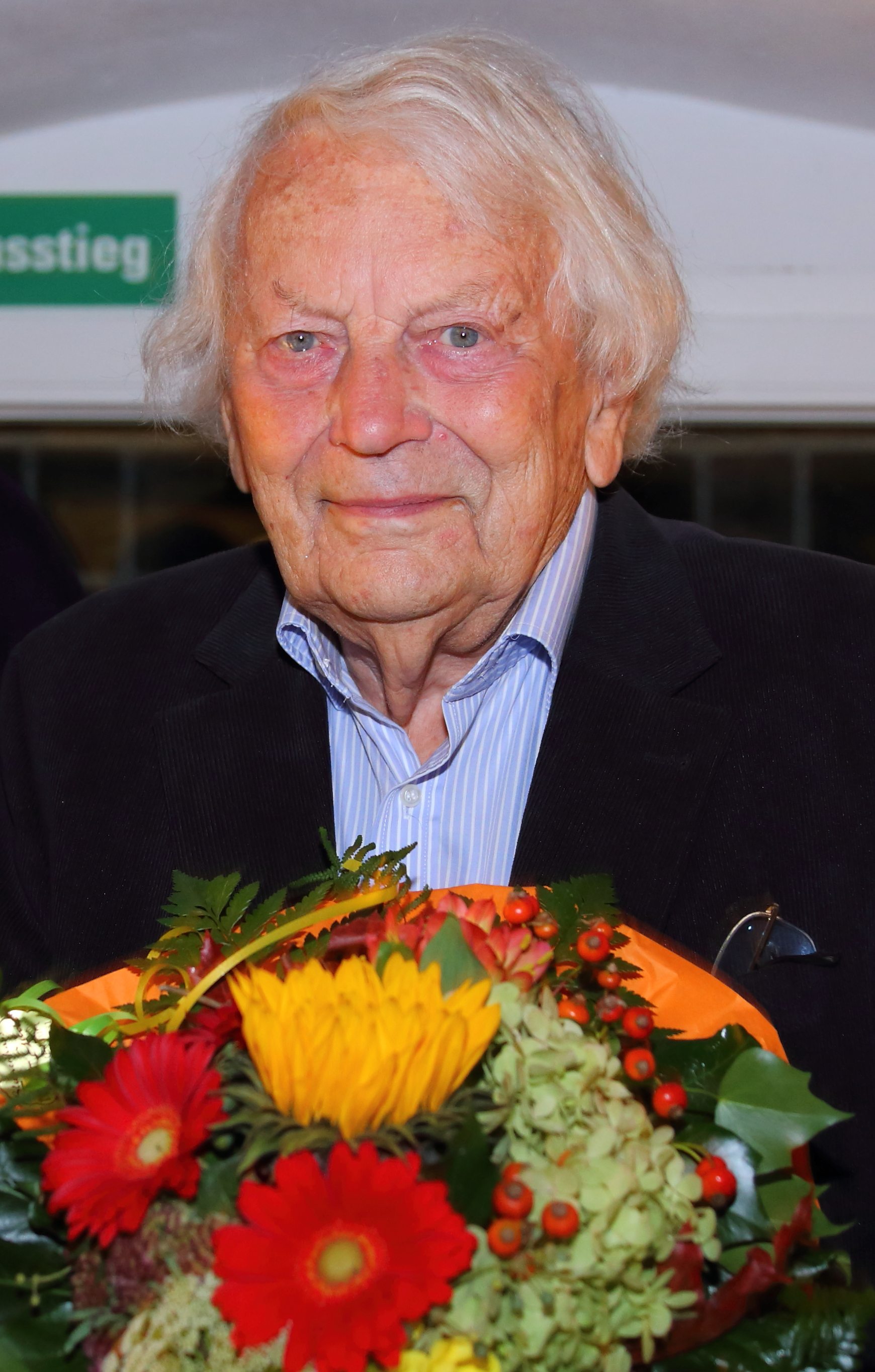 Portrait of the German writer Prof. Dr. Winfried Pielow, taken after a reading at cloister Gravenhorst (DA, Kunsthaus Kloster Gravenhorst) in Hörstel-Gravenhorst, Kreis Steinfurt, North Rhine-Westphalia, Germany.